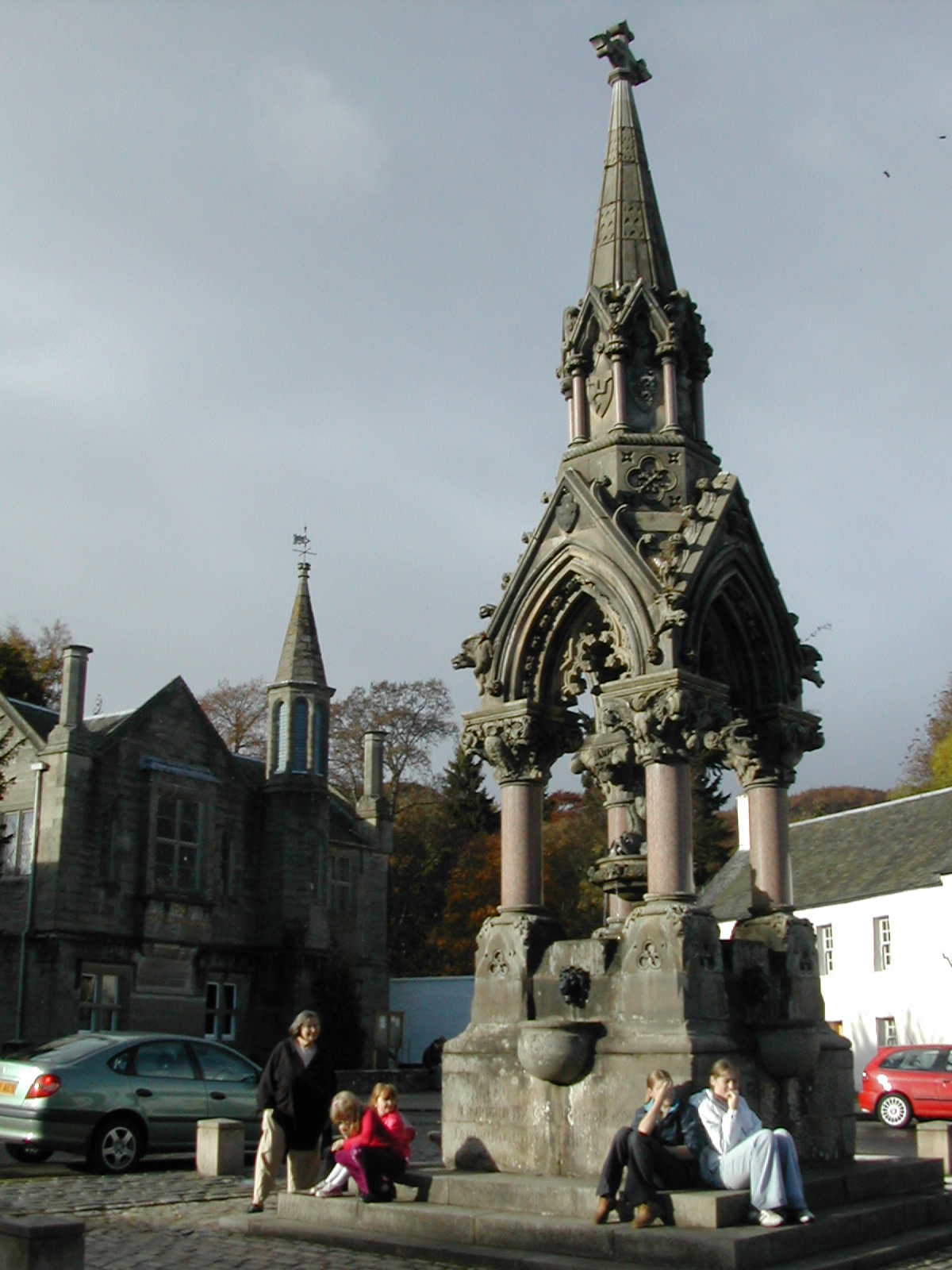 Nom du fichier : DSCN2459.JPG Taille du fichier : 369.1 Ko (378008 octets) Date : 2003/10/25 15:37:48 Taille de l'image : 1600 x 1200 pixels Résolution : 300 x 300 ppp Profondeur en bits : 8 bits/canal Attribut de protection : Désactivé Attribut Masqué : Désactivé ID de l'appareil : N/A Appareil : E775 Mode de qualité : NORMAL Mode de mesure : Multizones Mode d'exposition : Programme Auto Speed Light : Non Distance Focale : 5.8 mm Vitesse d'obturation : 1/164.3 seconde Ouverture : F7.9 Correction d'exposition : 0 IL Balance des blancs : Auto Objectif : Intégré Mode Synchro-Flash : Premier Rideau Différence d'exposition : N/A Programme Décalable : N/A Sensibilité : Auto Renforcement de la netteté : Auto Type d'image : Couleur Mode Couleur : N/A Saturation : N/A Contrôle Saturation : N/A Compensation des tons : Normal Latitude (GPS) : N/A Longitude (GPS) : N/A Altitude (GPS) : N/A